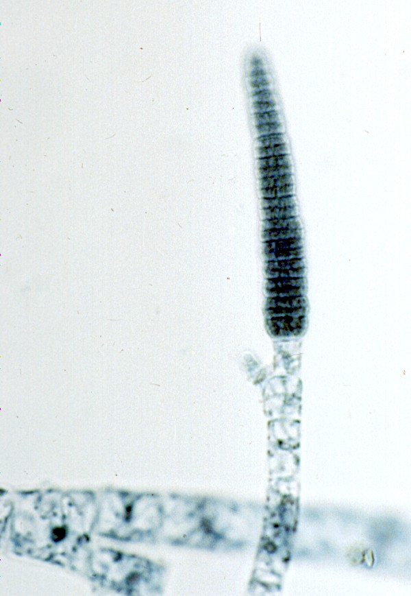 Light micrograph of a whole-mount slide of the plurilocular structure of Ectocarpus